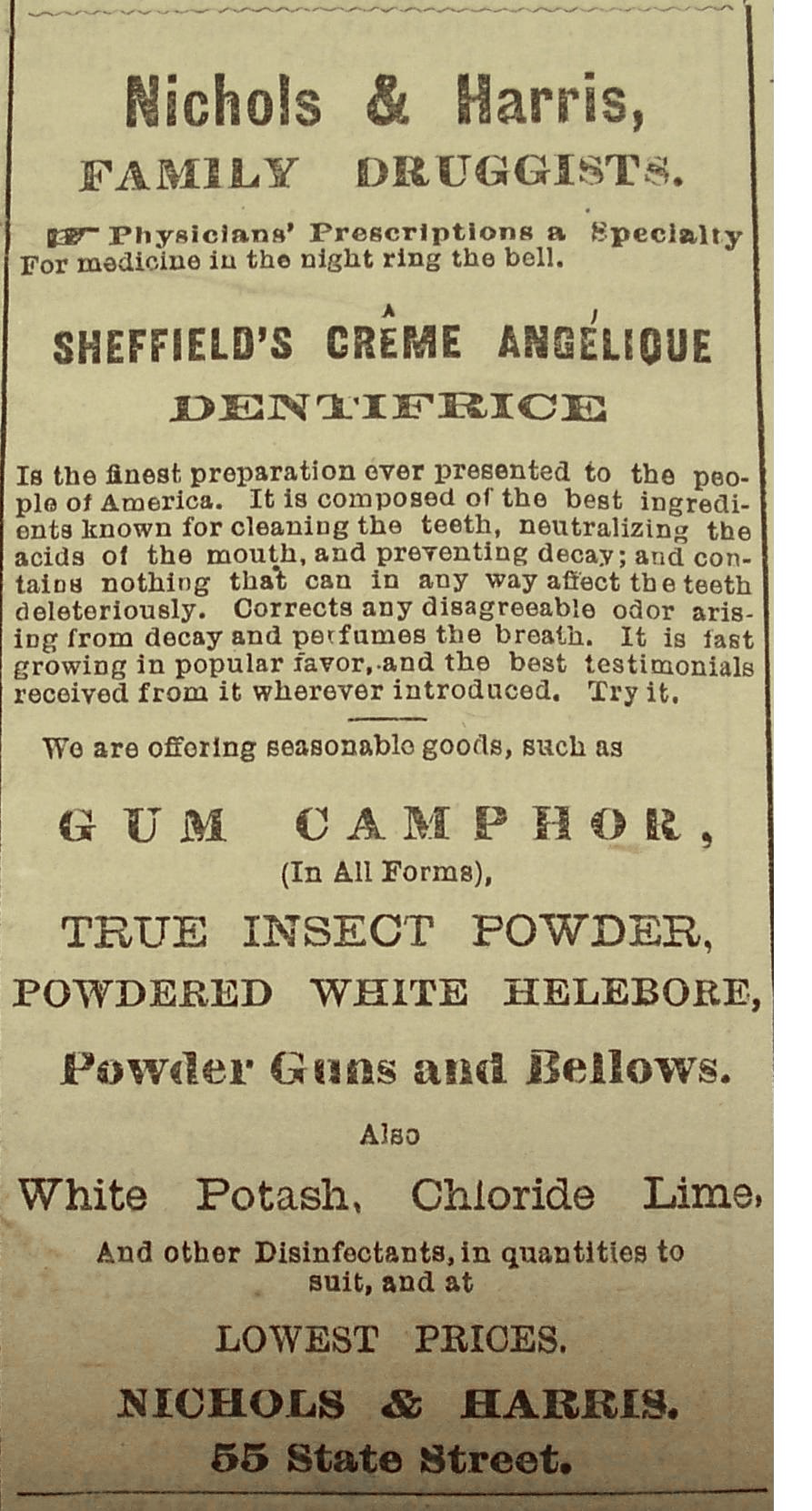 The first advertisement ever published for toothpaste appeared on March 12, 1881 in the New London Telegram